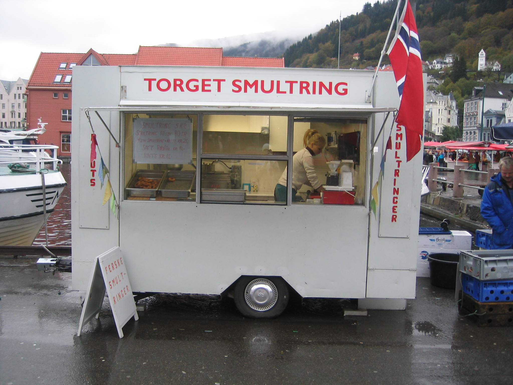 Smultring vendor in Norway. Photo by aggi. (Flickr) Attribution required.